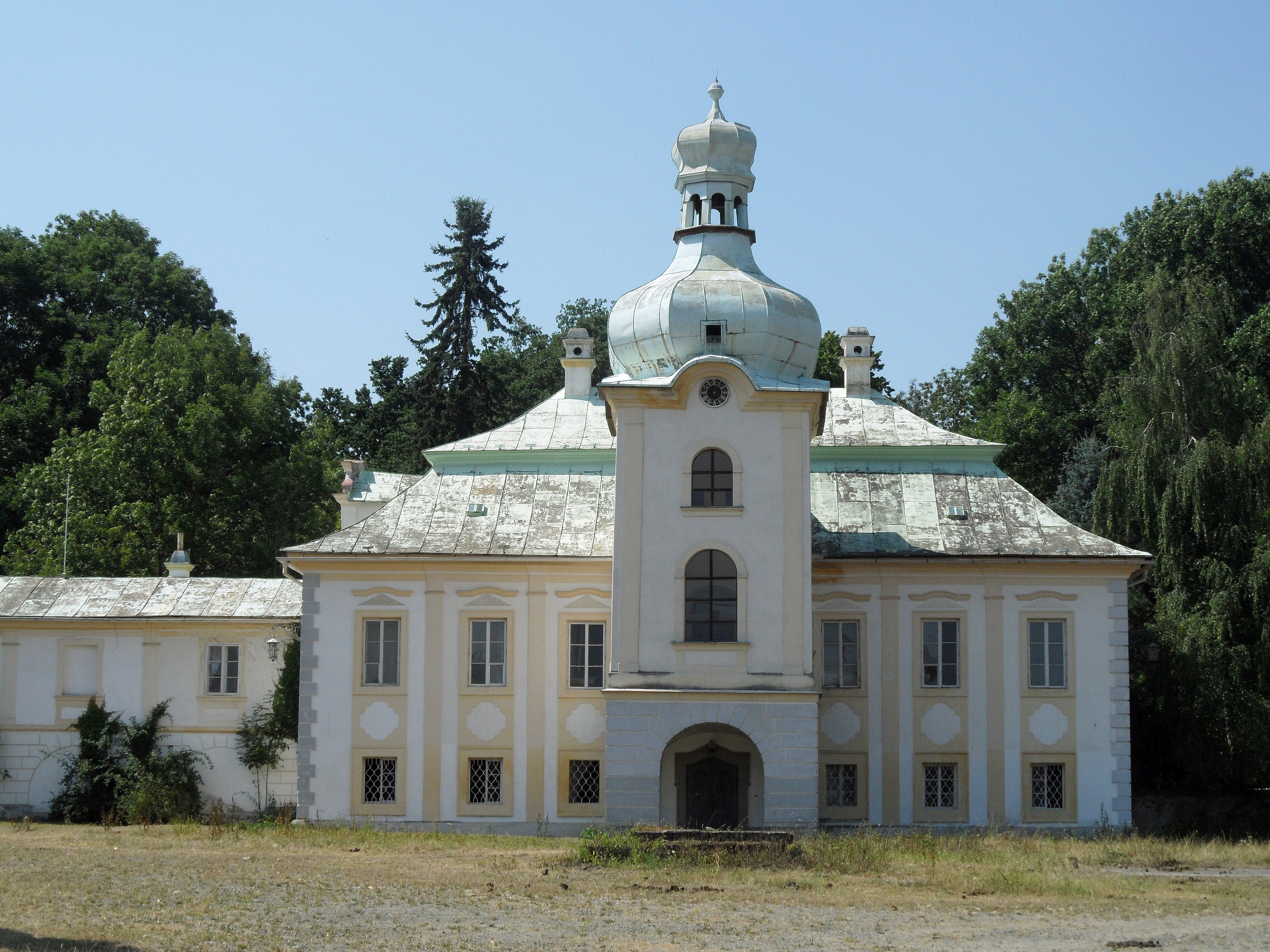 Úhrov A. Overview of Chateau from North-East (Main Facade). Havlíčkův Brod District, the Czech Republic.